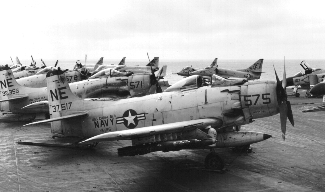 U.S. Navy Douglas A-1H Skyraider of Attack Squadron 25 (VA-25) "Fist of the Fleet" aboard the aircraft carrier USS Coral Sea (CVA-43). VA-25 was assigned to Carrier Air Wing 2 (CVW-2) aboard the Coral Sea for a deployment to Vietnam from 29 July 1966 to 23 February 1967. A-1Hs BuNos. 135356 and 137517 are nearest to the camera.